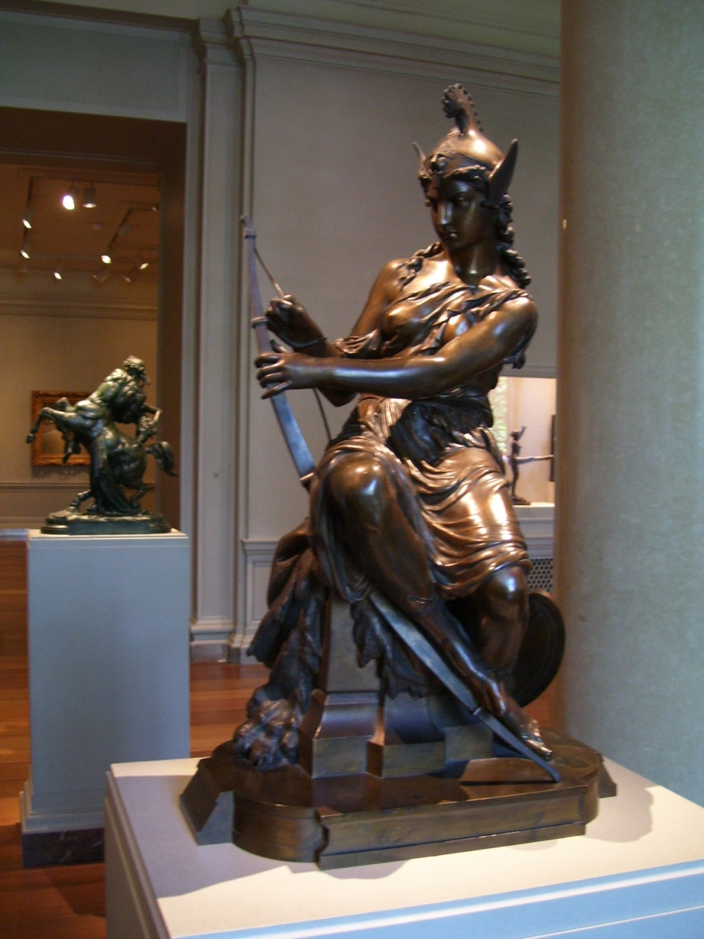 Pierre-Eugene-Emile Hebert Washington DC